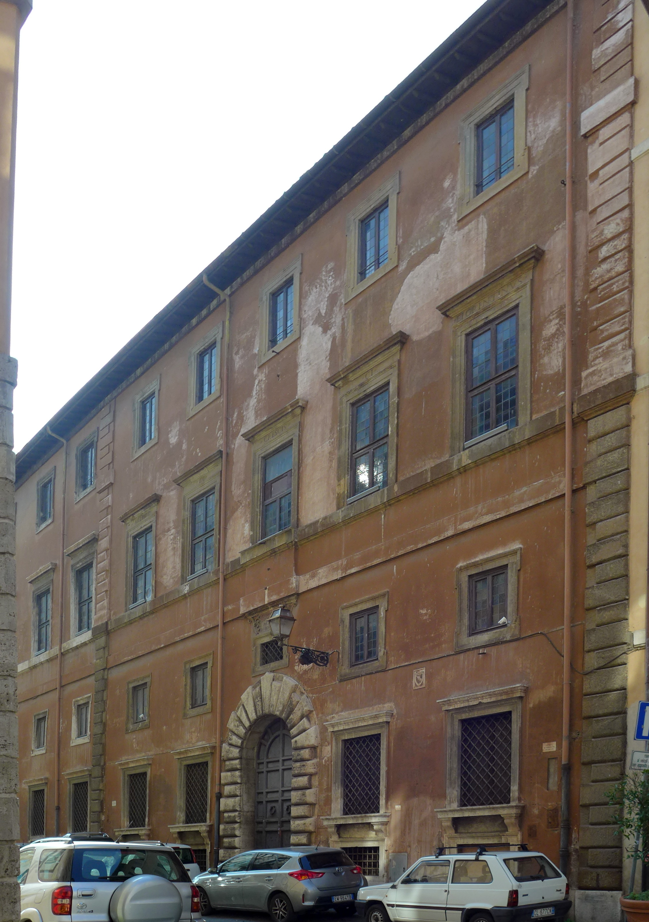 Via Giulia (Rome); Palazzo Medici Clarelli